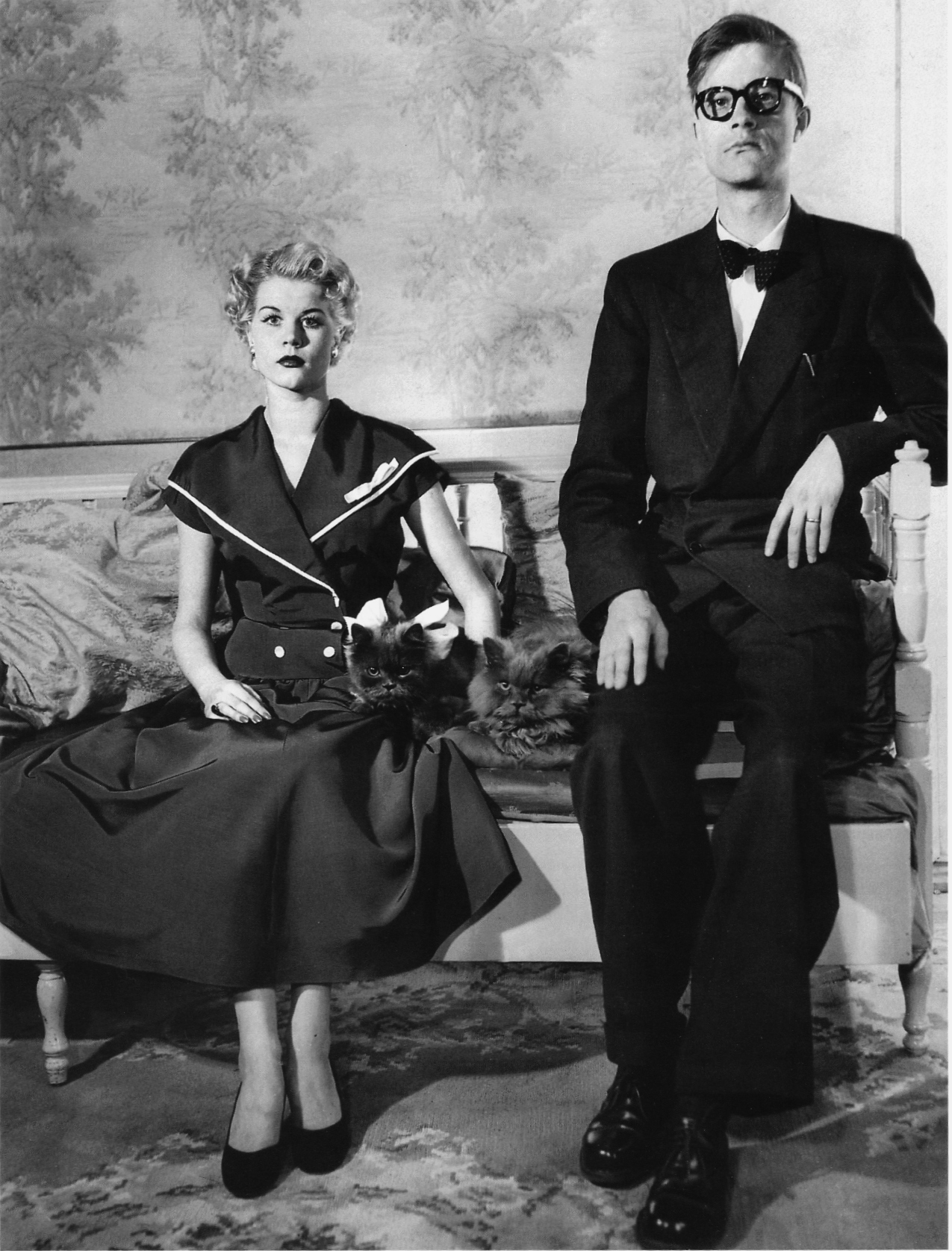 Photograph of the Finnish actress Lippe Suomalainen (1931–) and her husband, the caricaturist Kari Suomalainen (1920–1999).